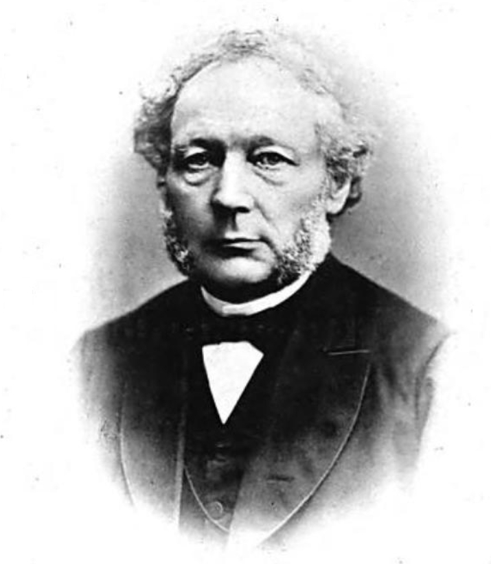 Portrait of Ernst Zimmermann (Richter) from frontispiece of: [Ernst Christian Johannes] Schön: Mittheilungen aus dem Leben des hanseatischen Oberappellationsgerichtsraths Dr. Ernst Zimmermann. Schmidt & Erdtmann, Lübeck 1879.